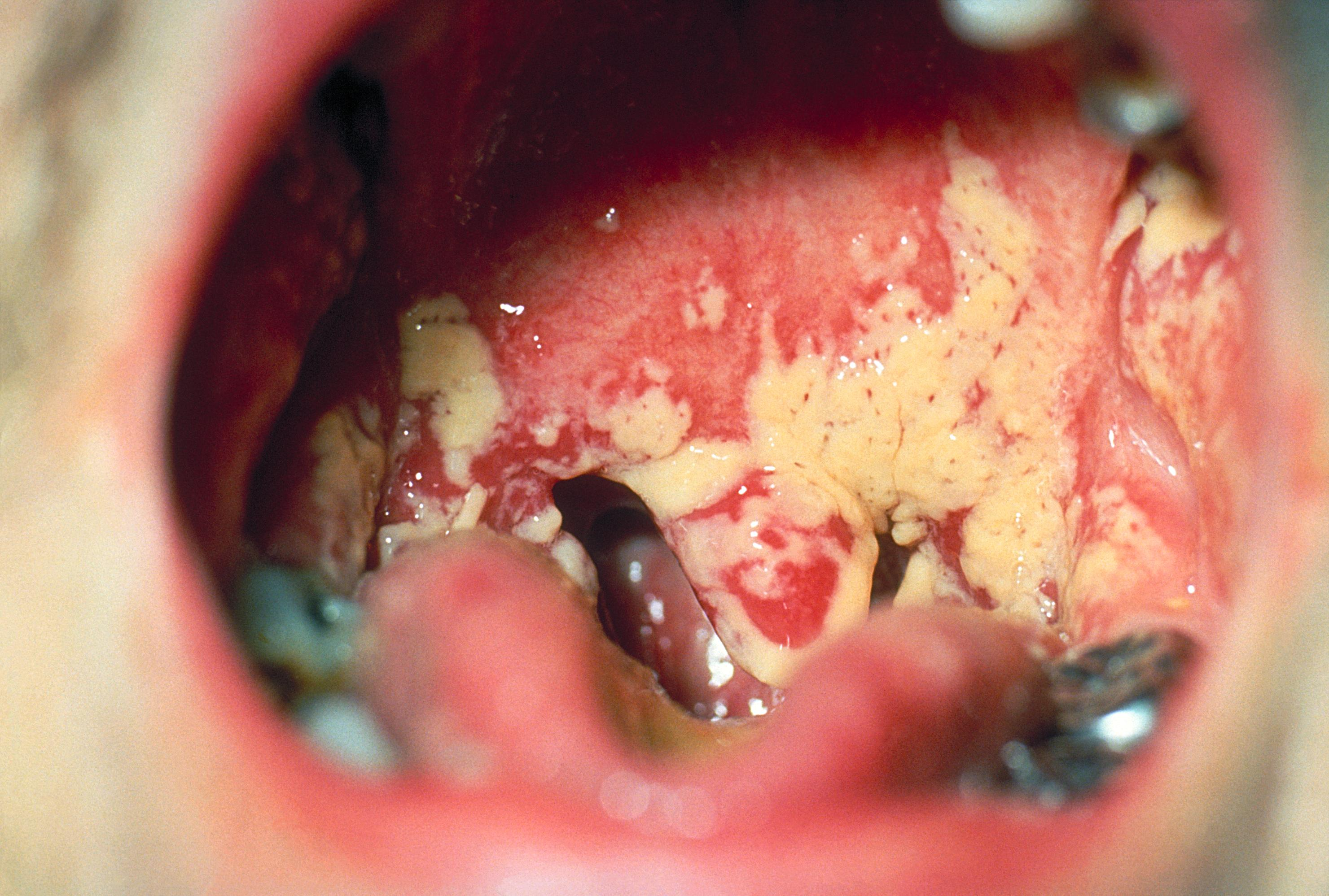 Oral thrush. Aphthae. Candida albicans.